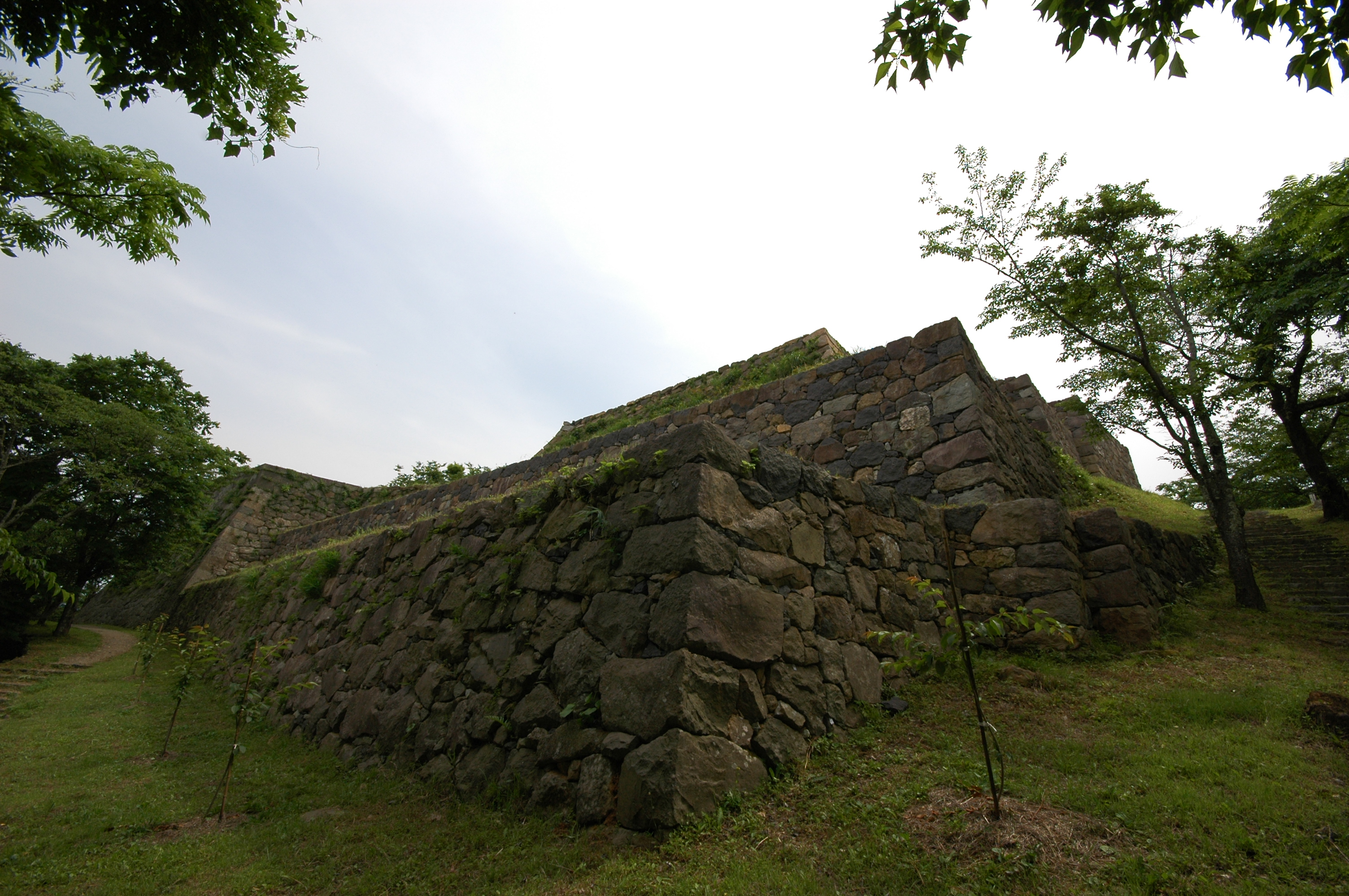 view of Honmaru stone walls,the large keep base(center) and the small keep base(left)